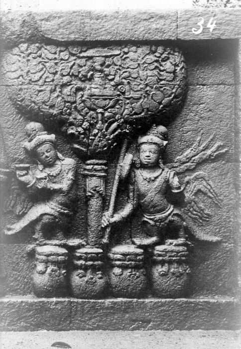 Part of relief O 147 at the hidden foot of the Borobudur